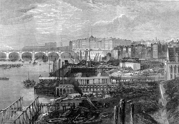 The construction of the Victoria Embankment in London, England. This section in the foreground is near the Inner Temple and the Middle Temple. Somerset House is in the background. The bridge is the old version of Waterloo Bridge.